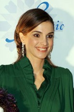 Mrs. Laura Bush stands with Her Majesty Queen Rania Al-Abdullah of Jordan and Sesame Street characters Khokha, left, and Elmo during a dinner celebrating the partnership between the Sesame Workshop and the Mosaic Foundation at the National Building Museum in Washington, D.C., Wednesday, May 9, 2006. Founded by the spouses of Arab Ambassadors to the United States, the Mosaic Foundation is dedicated to improving the lives of women and children. Laura Bush and Sesame Street characters have been cropped out.